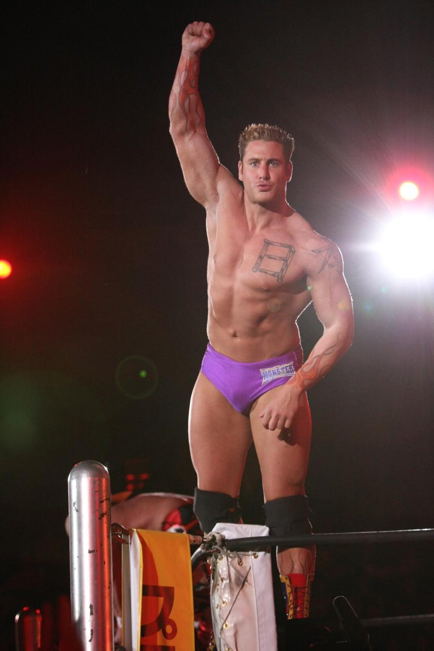 Professional wrestler Rene Bonaparte (real name Rene Goguen) poses oin the turnbuckles prior to a match at a HUSTLE event on May 4, 2009.